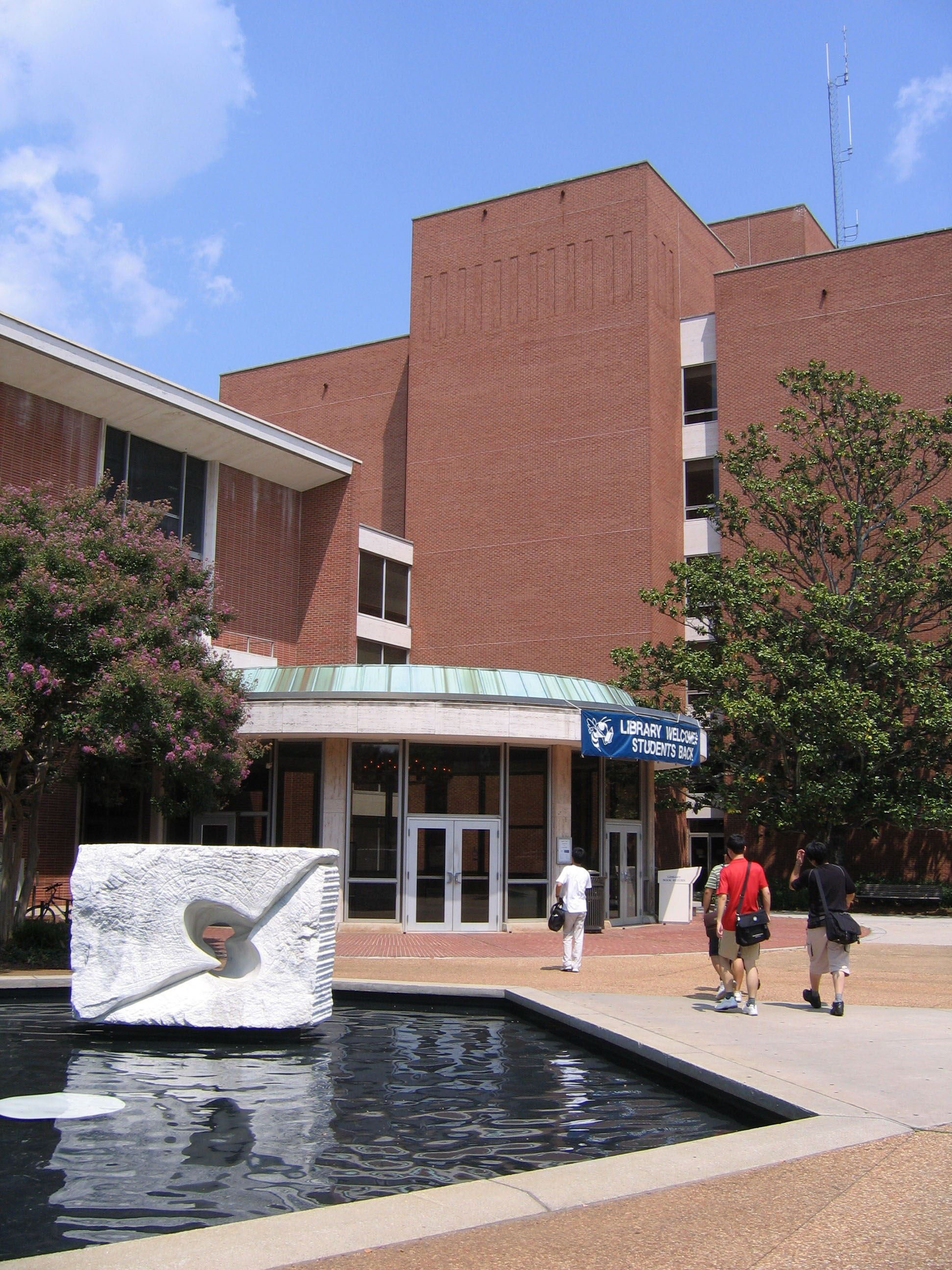 Description: the front of the Georgia Tech Library on the campus of the Georgia Institute of Technology. Source: I, User:Disavian, took this picture on 2007-08-13.